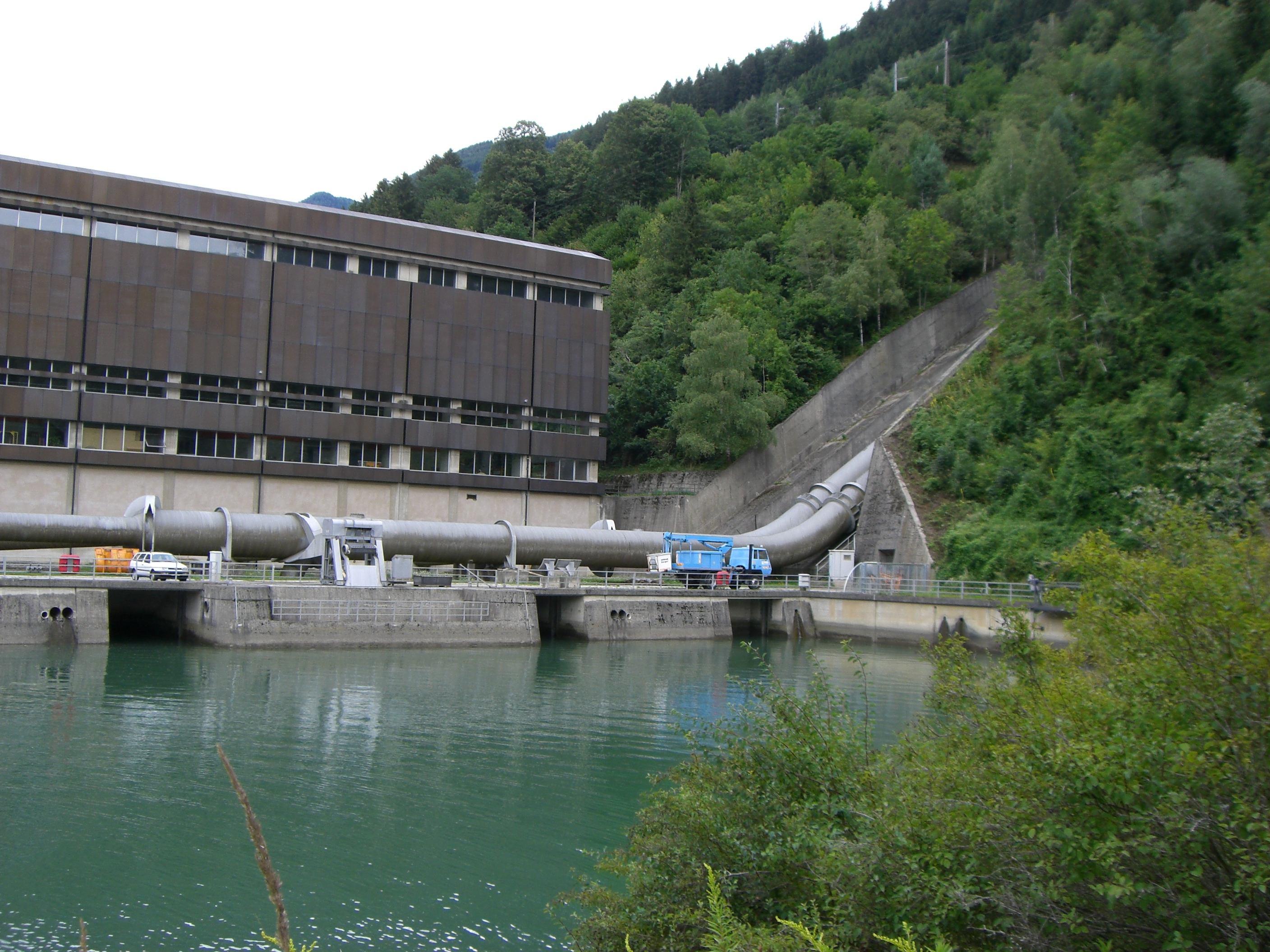 Power plant Malta-Hauptstufe, part of Maltakraftwerke in Reißeck, Carinthia, Austria